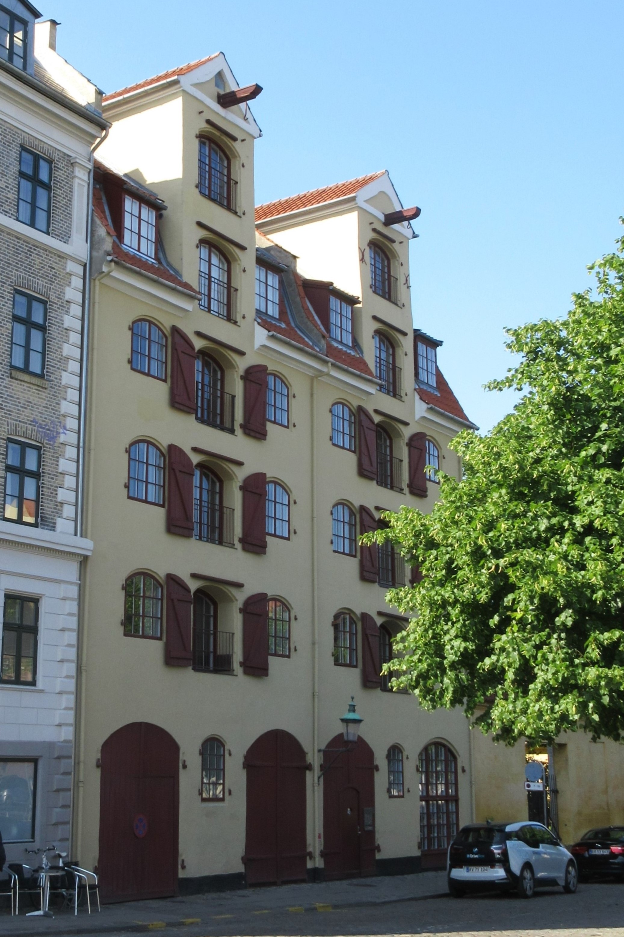 Overgaden Neden Vandet 45-47 in Copenhagen, Denmark